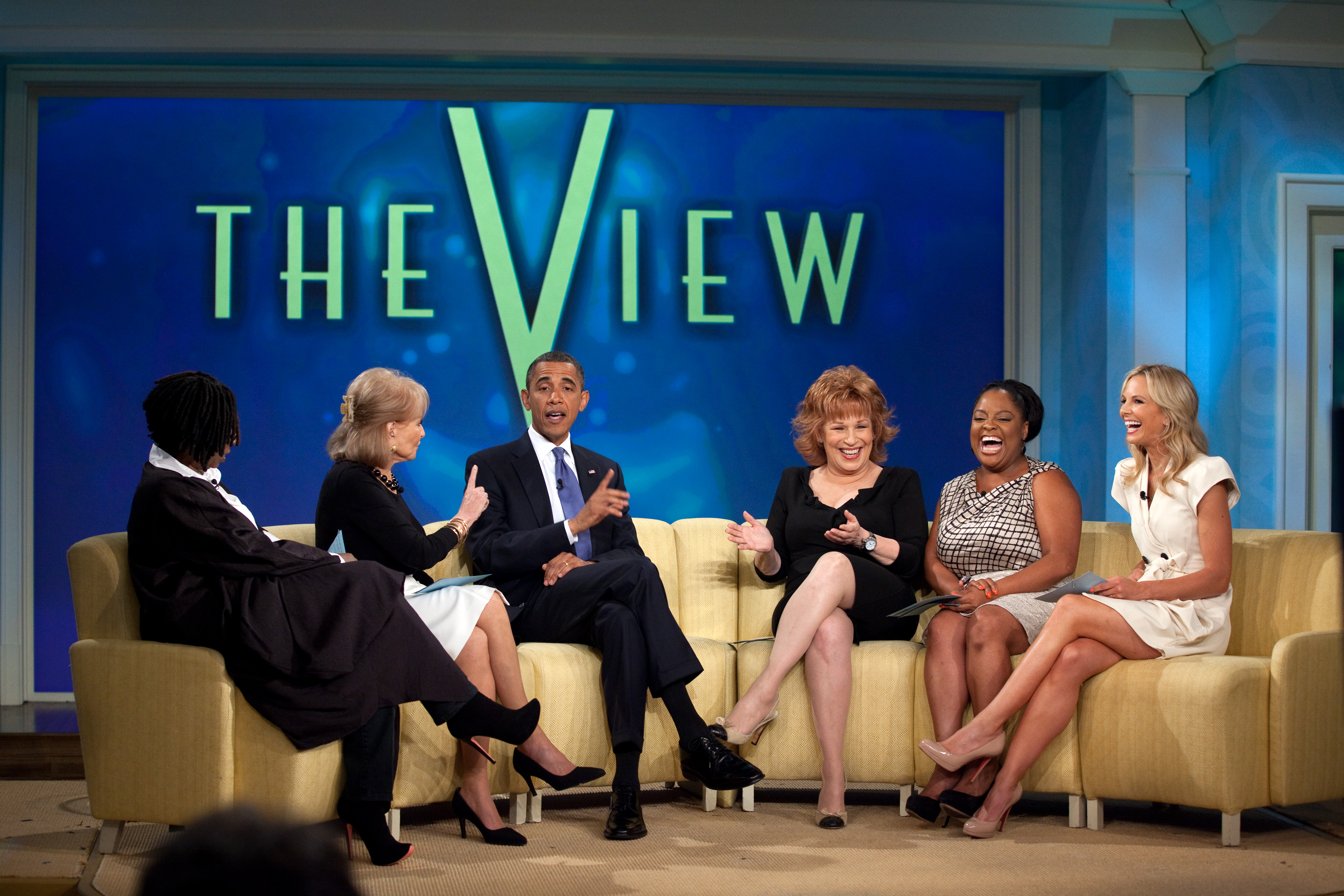 President Barack Obama records an episode of The View at ABC Studios in New York, N.Y., July 28, 2010. Pictured, from left, are Whoopi Goldberg, Barbara Walters, Joy Behar, Sherri Shepherd, and Elisabeth Hasselbeck.